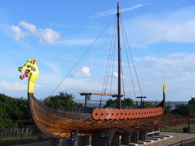 The English have Landed This boat at Ebbsfleet, Pegwell Bay, is supposed to be a replica of the "Hugin". The first Angles to come to England was reputedly, Hengist and his men in 449 and it is thought they landed here.